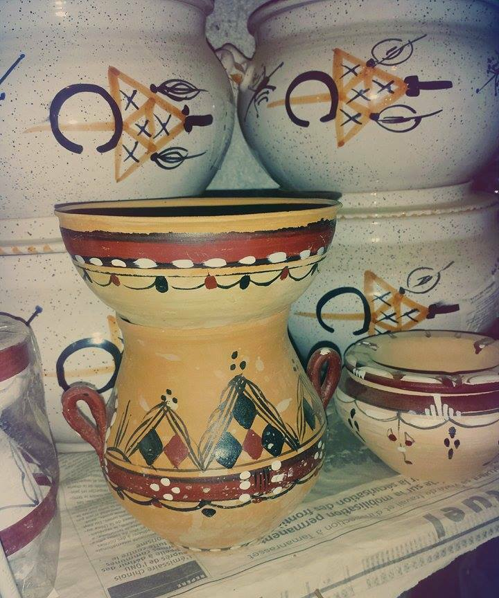 Vive*ISHAQ *La S.O.S This is an image of Cultural Fashion or Adornment from Algeria